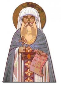 24th Pope & Patriarch of Alexandria